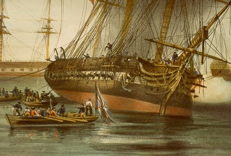 HMS Sirius sunk in Mauritius